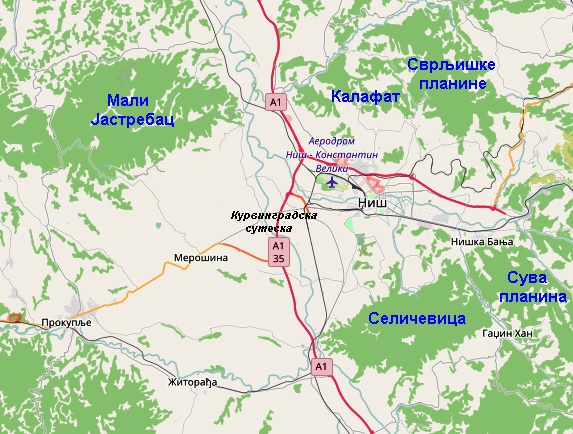 OpenStreetMap of Niška kotlina, in Serbia.